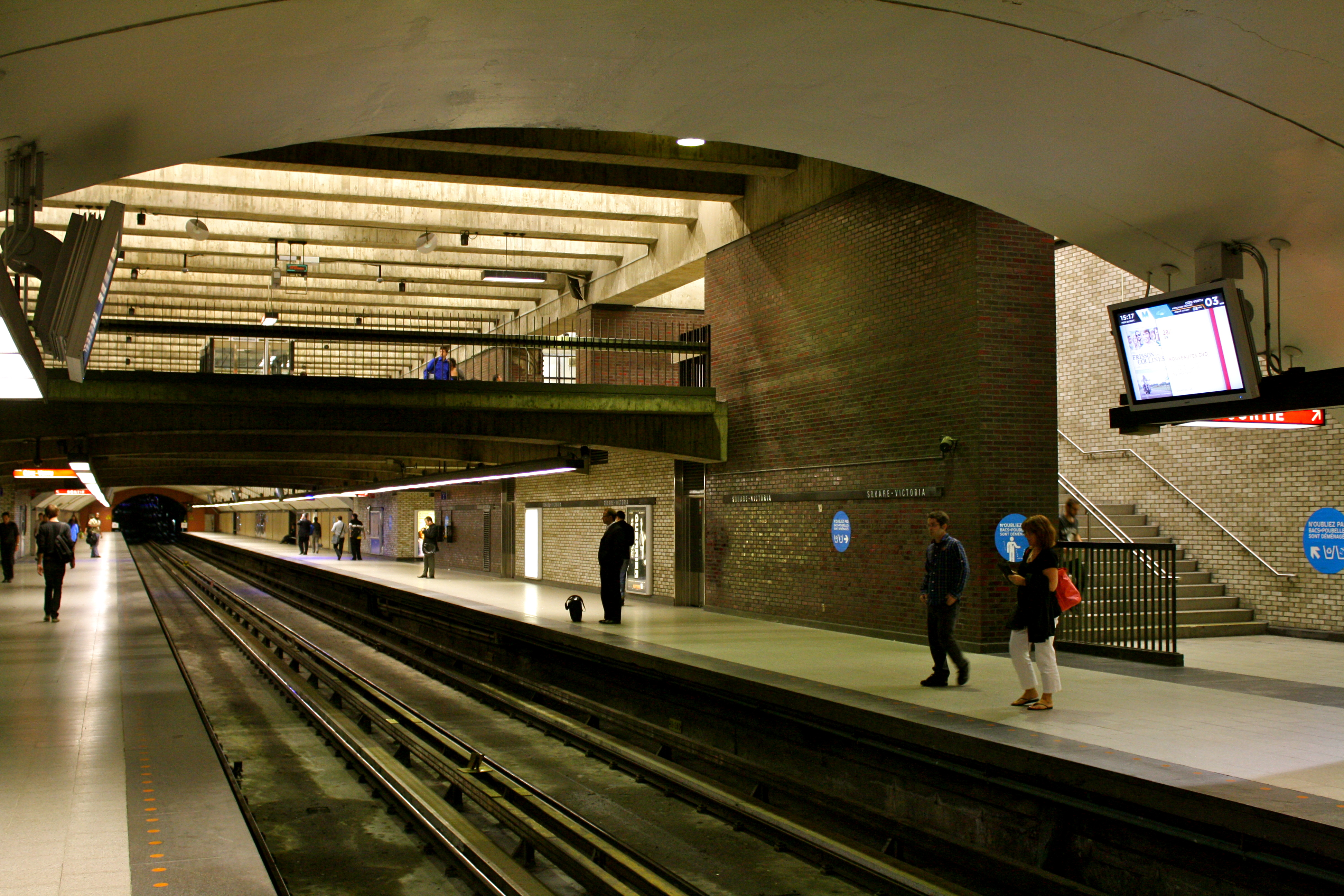 Square-Victoria Metro station platform.